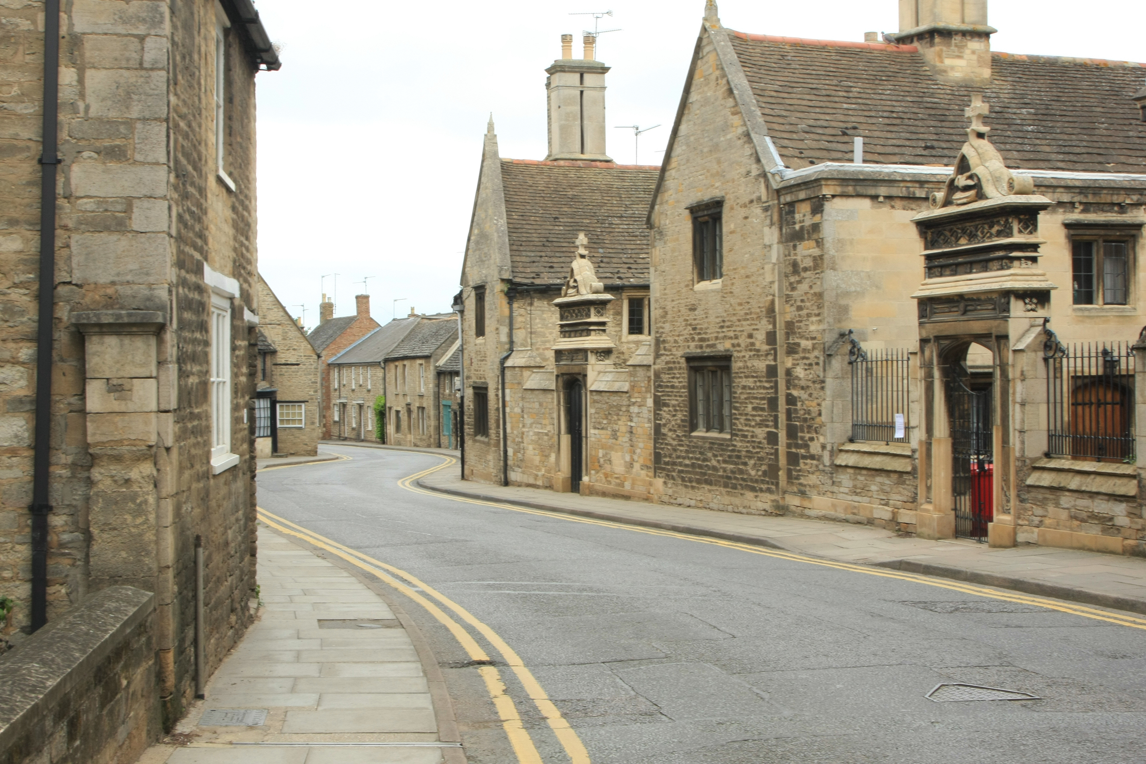 Section of the traffic light controlled single lane of North Street, Oundle in Northamptonshire, looking north.